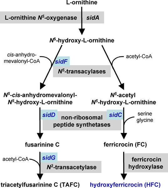 Postulated Siderophore Biosynthetic Pathway of A. fumigatus